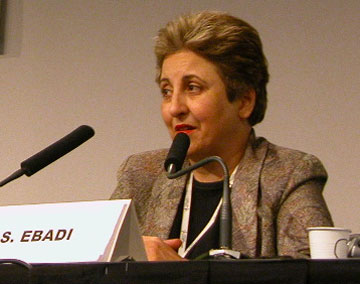 Shirin Ebadi at the WSIS Press Confrence (Tunis, 2005)